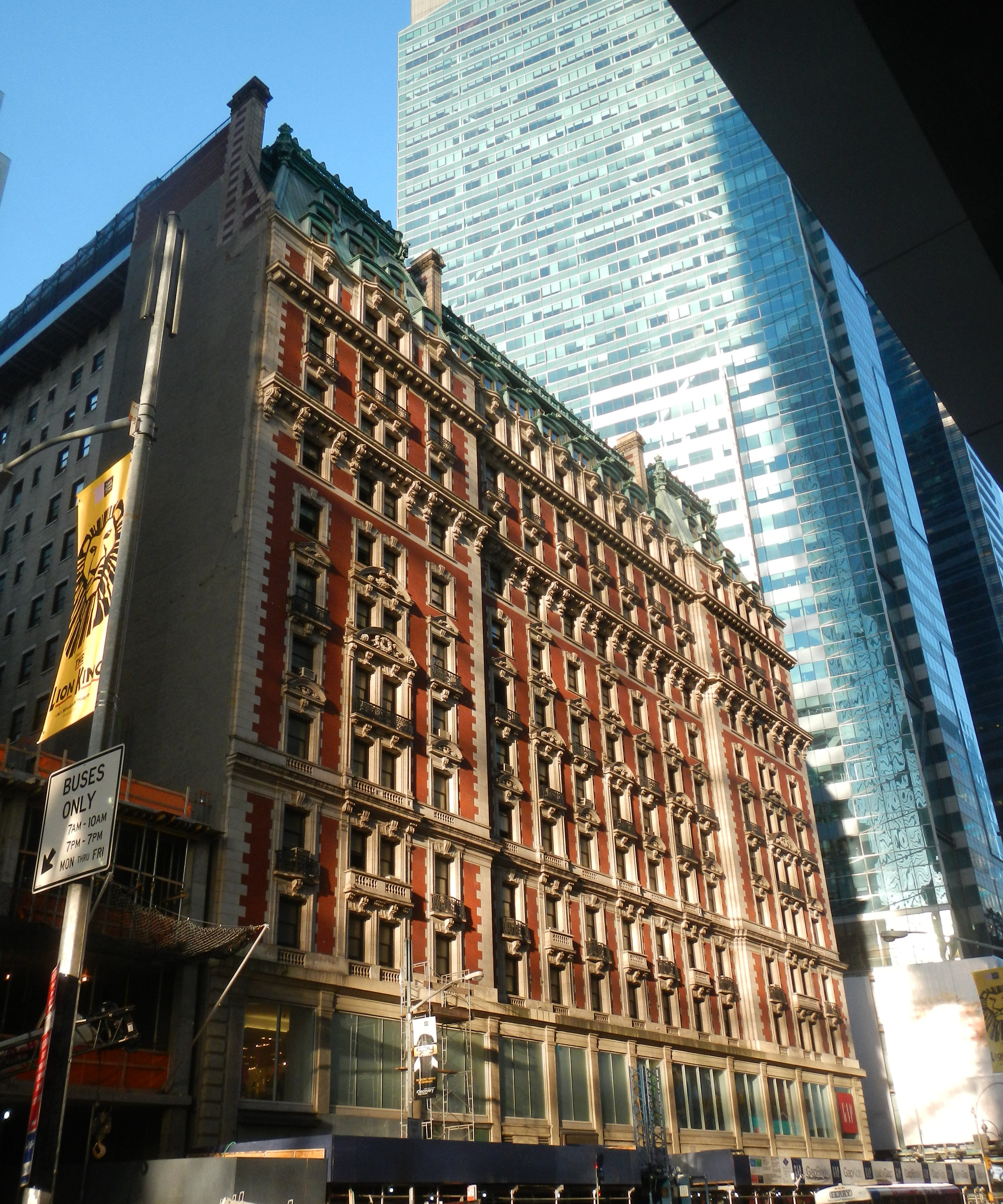 Looking west across 42d st at Knickerbocker Hotel by morning light reflected from building behind me.